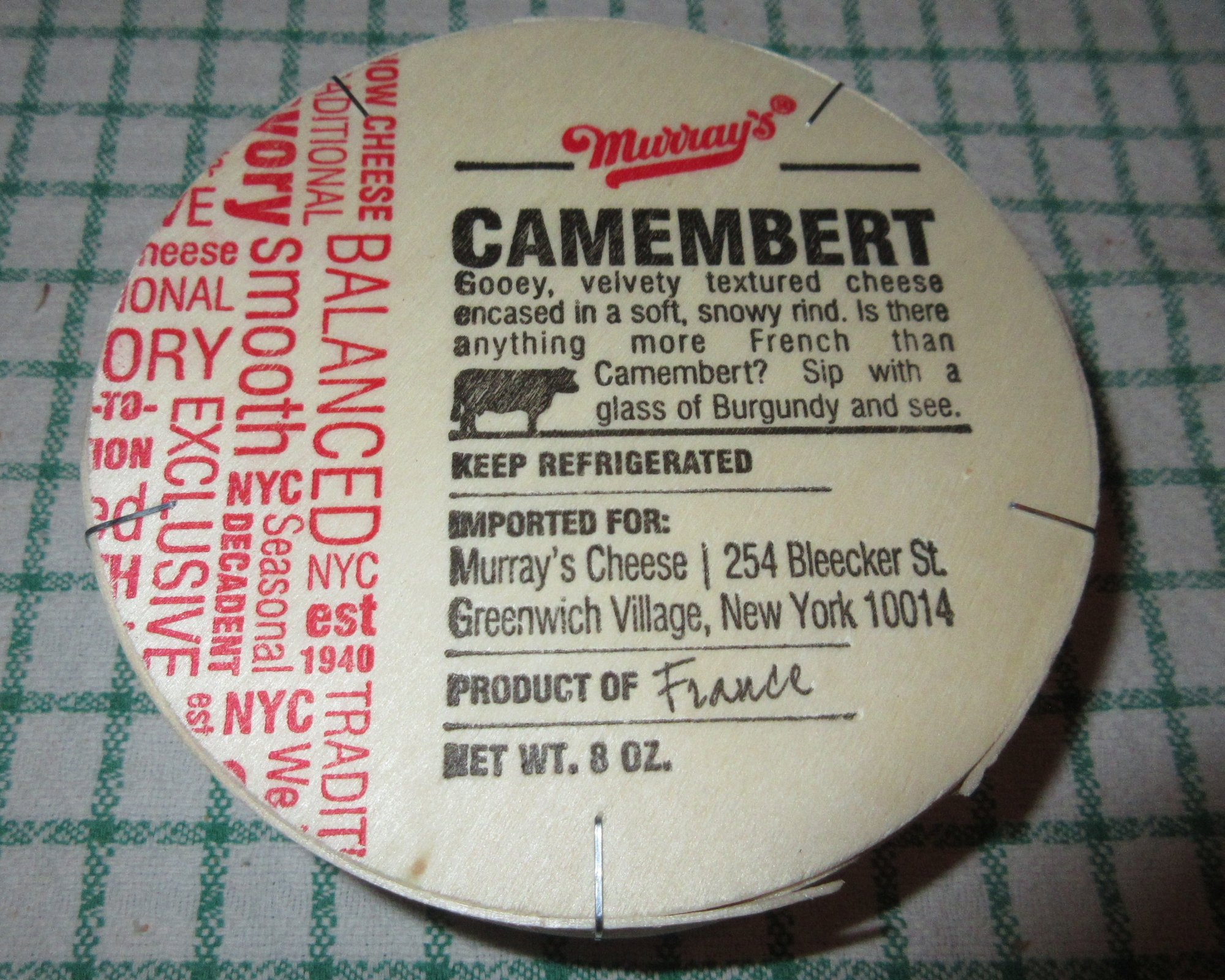 Murray's Camembert Gooey, velvety textured cheese encased in a soft, snowy rind. Is there anything more French than Camembert ? Sip with a grass of Burgundy and see. imported for: Murray's Cheese 254 Bleecker St. Greenwich village, New York 10014 product of France FR-78.077.001-CE (farmer La Tremblaye at La Boissière-Ecole - Yvelines - France)